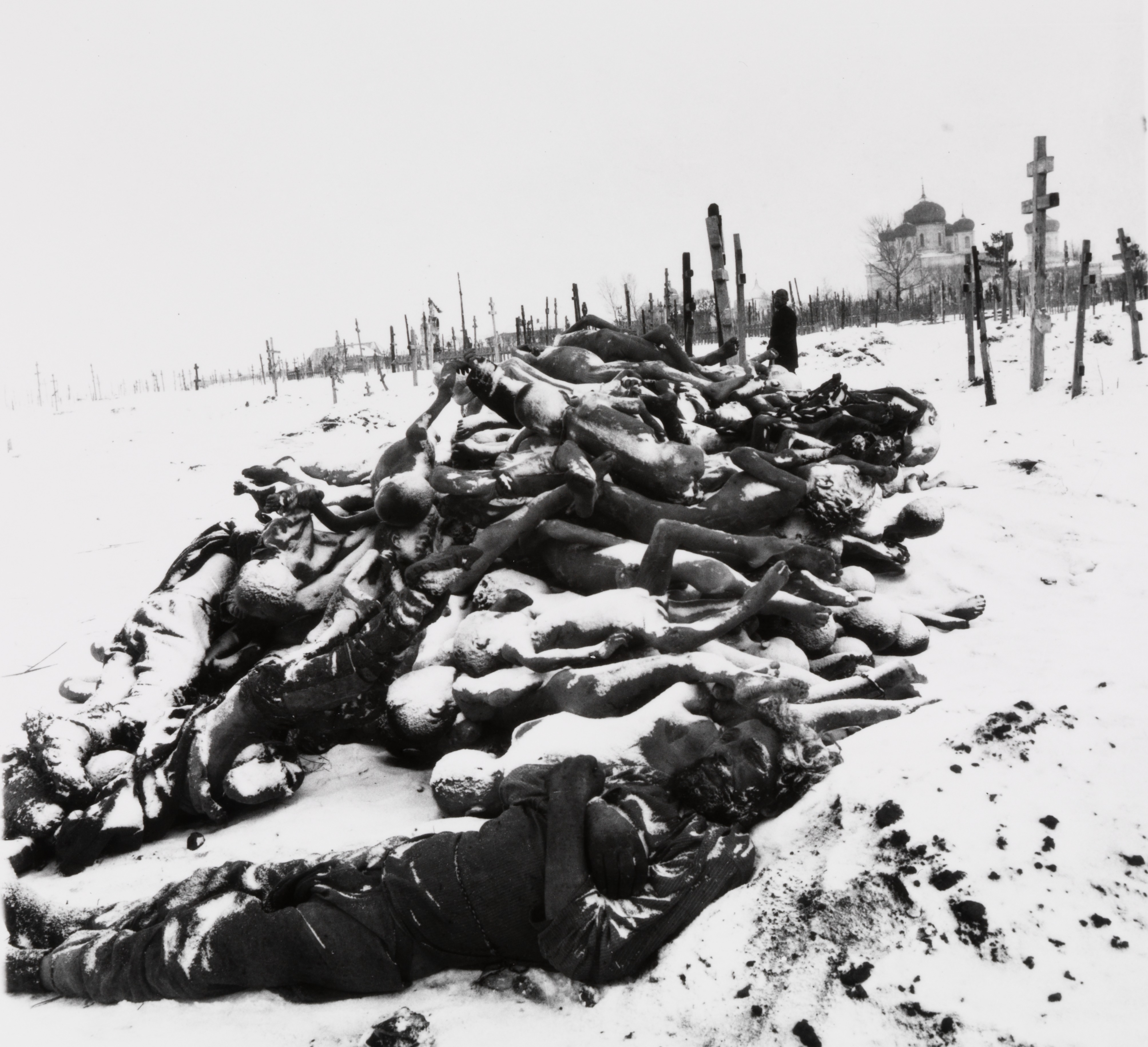 At the cemetery in Buzuluk. Pile of 70-80 human corpses, mostly children, who were found dead in the course of a 2-day period. Excerpt from a telegram sent by Fridtjof Nansen from Moscow to the Red Cross Dec. 9, 1921: «(...) Have visited Samara region stop Misery worse than darkest imagination stop Buzuluk district where Friends work has 915,000 inhabitants of whom 537,000 have no food left stop 30,405 died in September October November but deathrate rapidly increasing and before spring at least two thirds of population will perish if help not promptly forthcoming (...)». One of the pictures from Russia in November and December 1921. On assignment from the International Red Cross, Fridtjof Nansen visited the regions that were the hardest hit by famine.